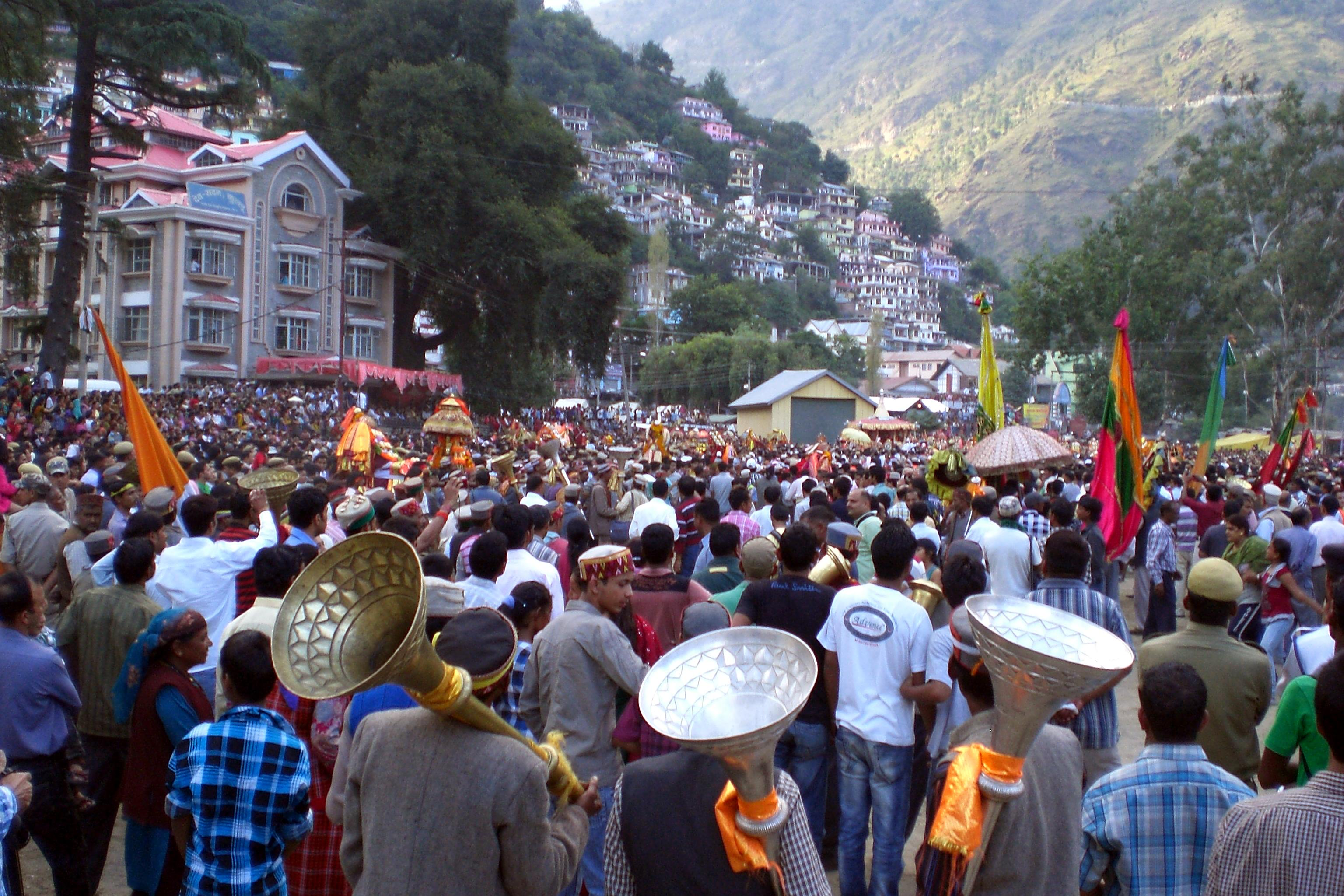 Photo, taken during Kullu Dussehra 2011, showing the main procession at about 4pm on the northern end of Dussehra Ground.